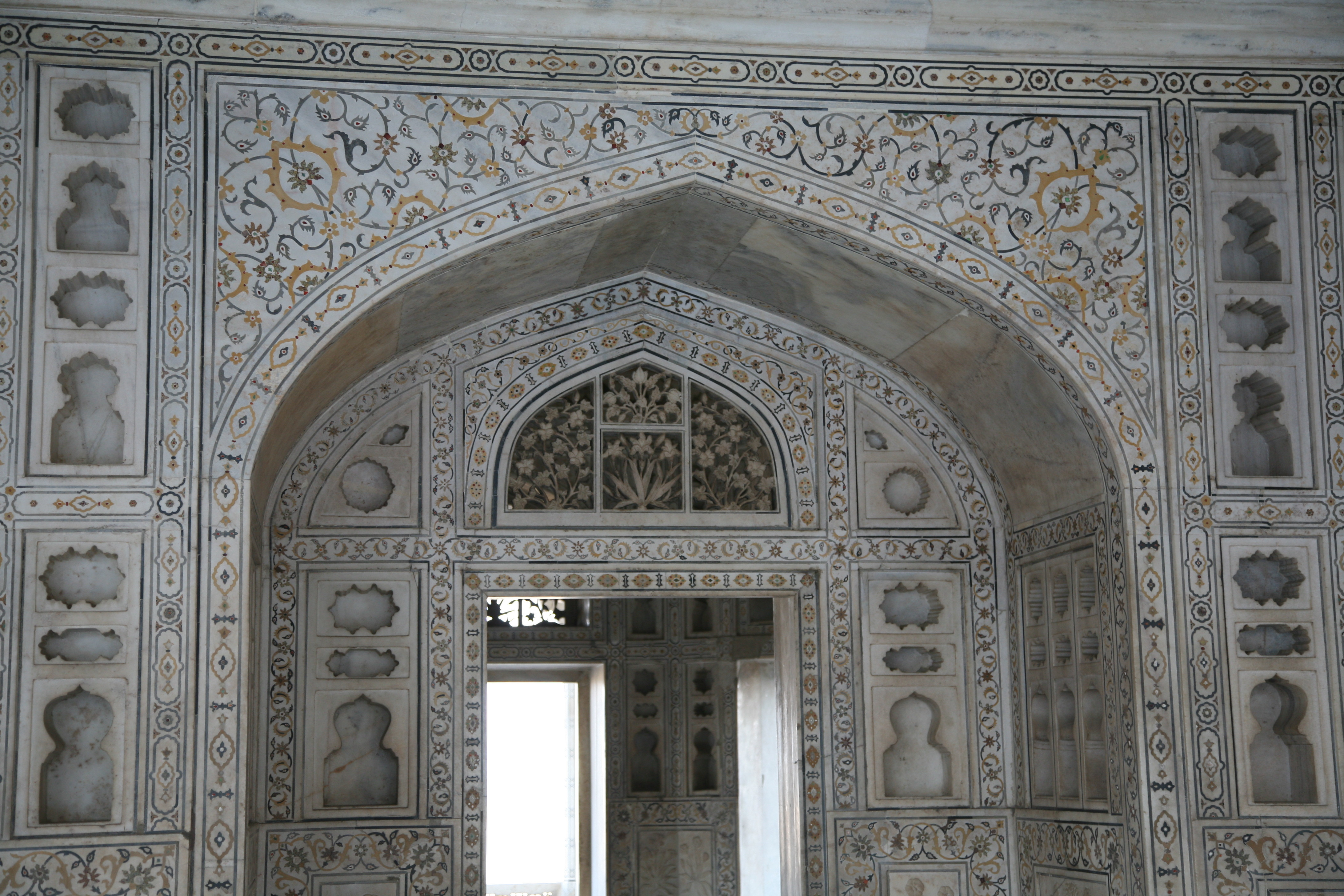 Musamman Burj in the Red Fort Agra. Shah Jahan was imprisoned here